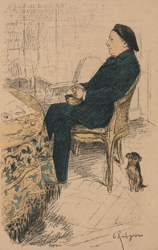 French poet and playwright Théodore de Banville (1823-1891) by Georges-Antoine Rochegrosse (1859-1938). Illustration from Revue illustrée (1886).